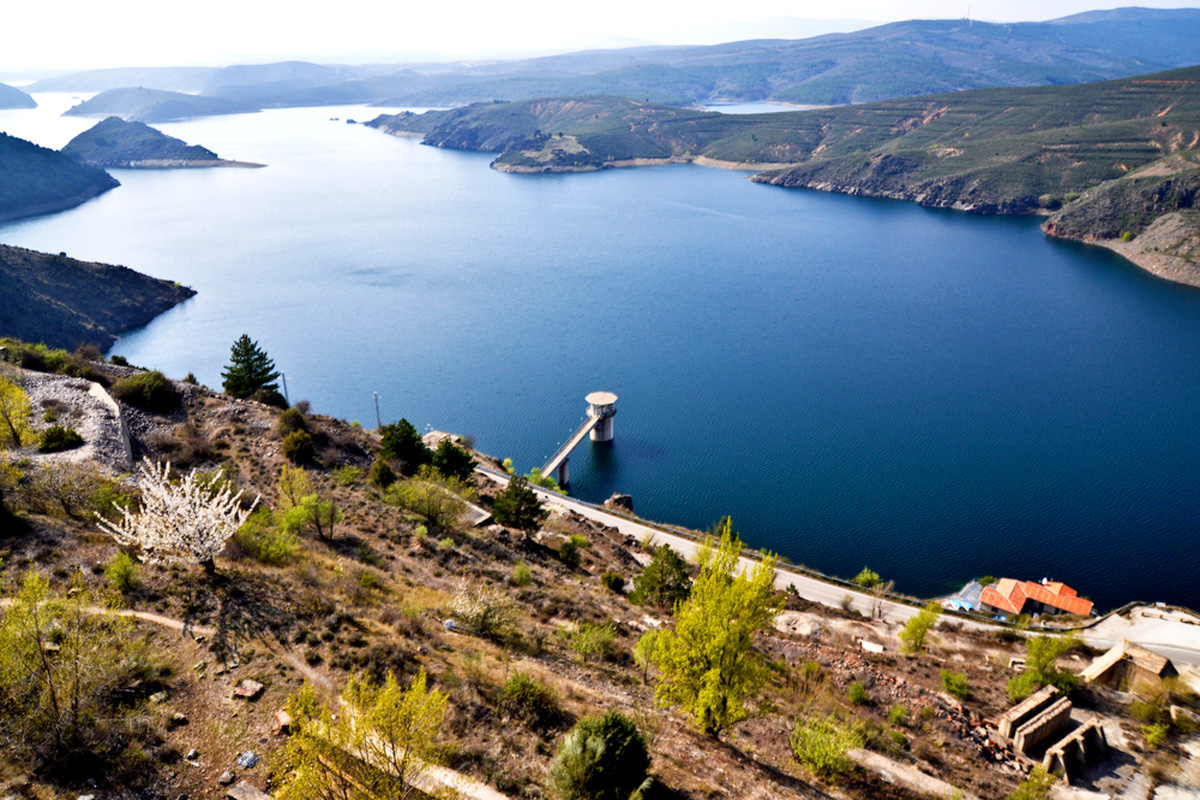 El embalse de El Atazar es también conocido por su tamaño como "el mar de Madrid".